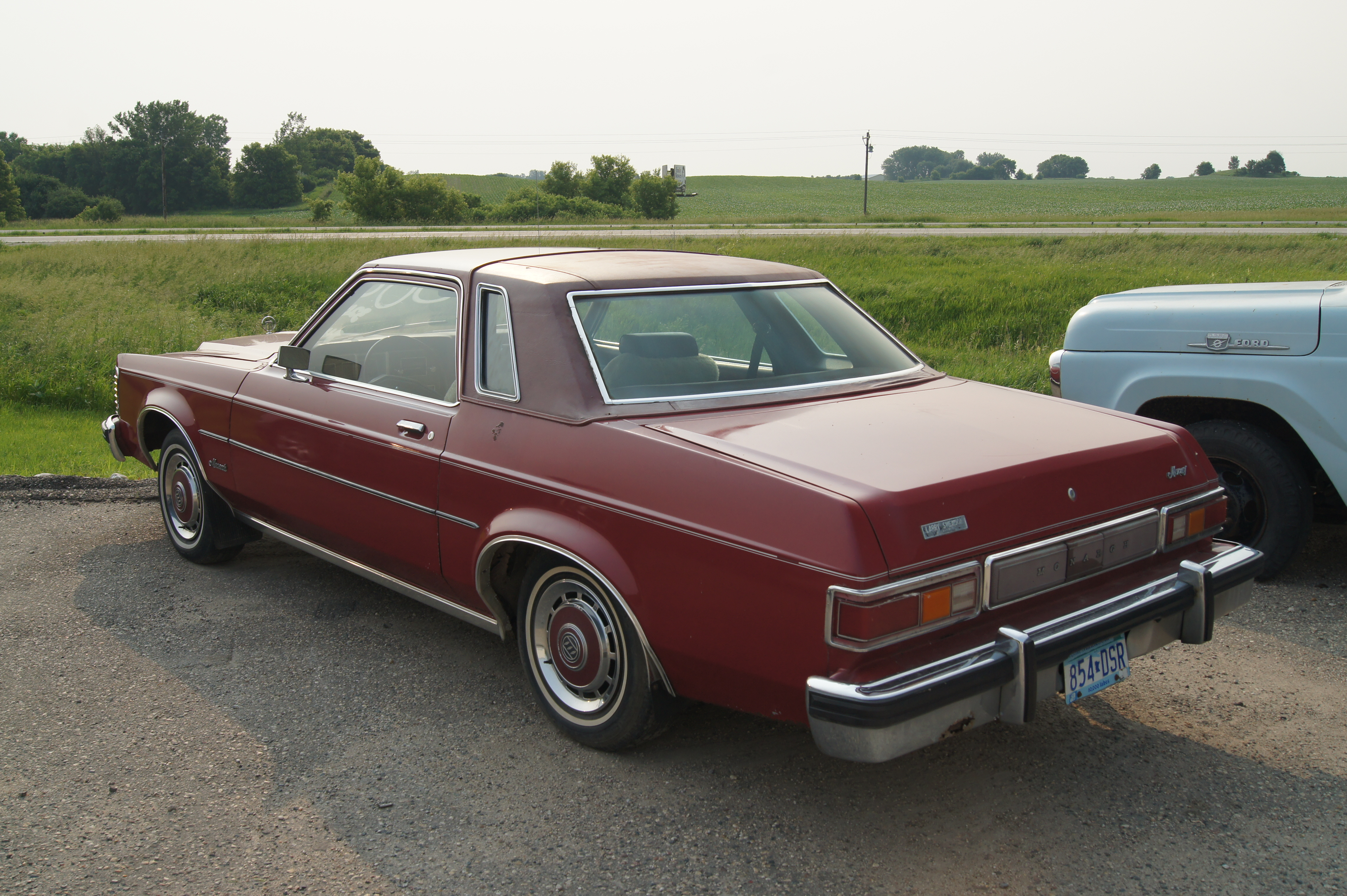 3 Speed Manual with Overdrive Click here for more car pictures at my Flickr site.